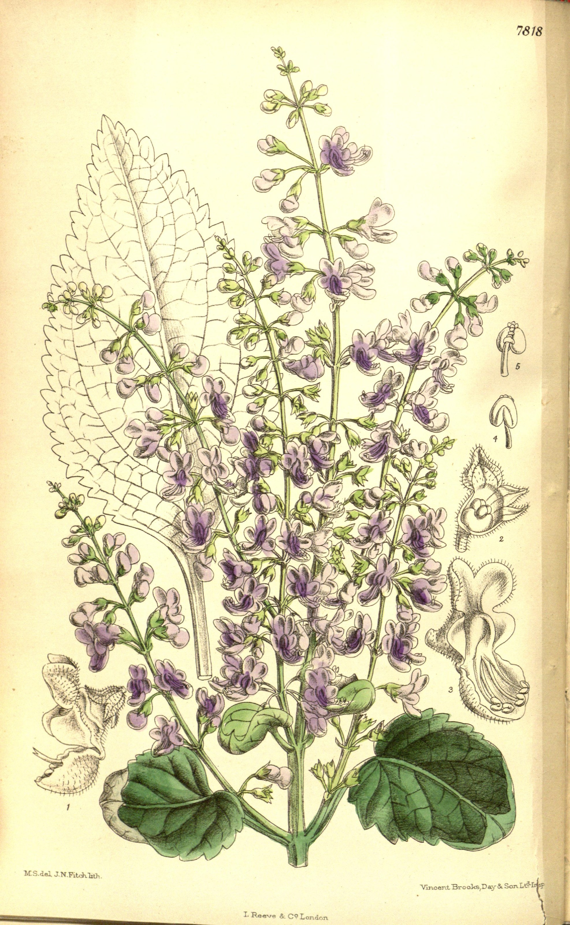 7S/8 MS.del, J.N.FxtATith. • Raer^e & CP London -VmceTitBrcoks,r)ay&SoivLt*W!i? .